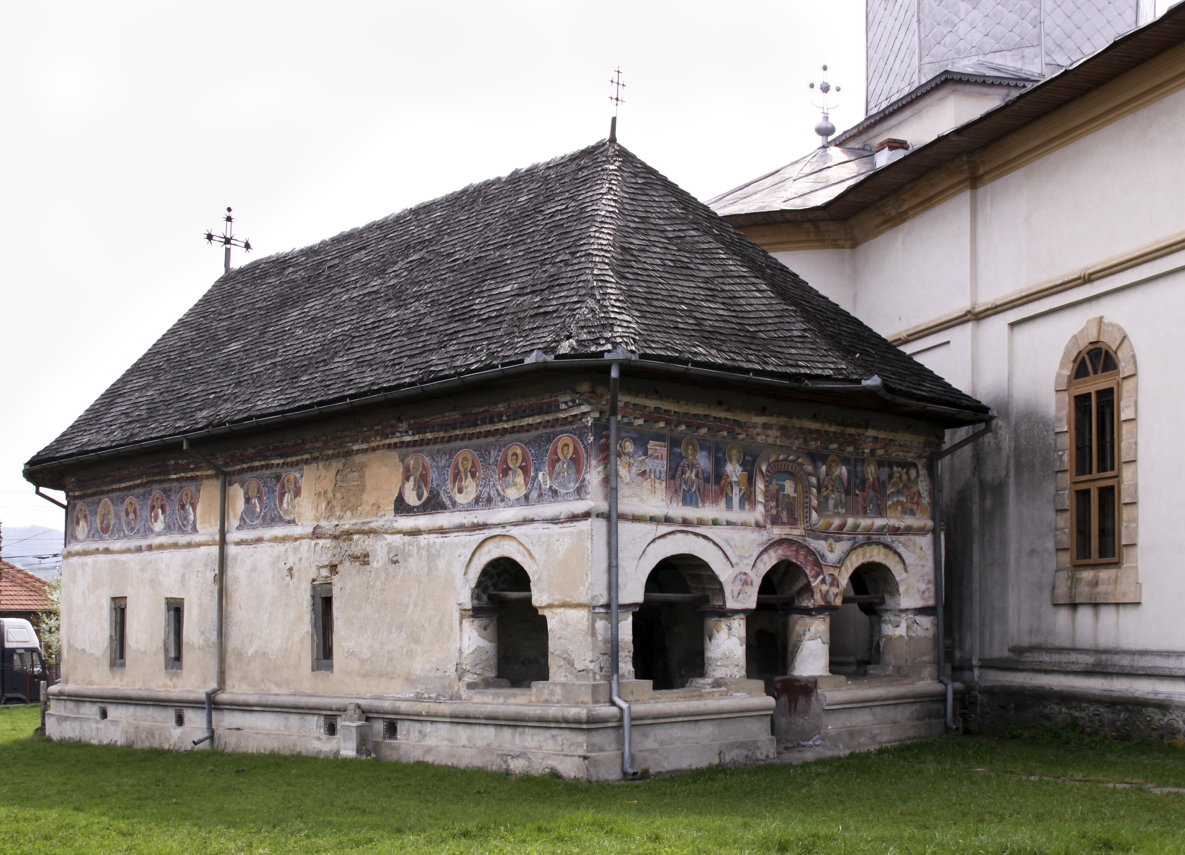 Domneşti, Argeş county, Romania: the old church, North-West.